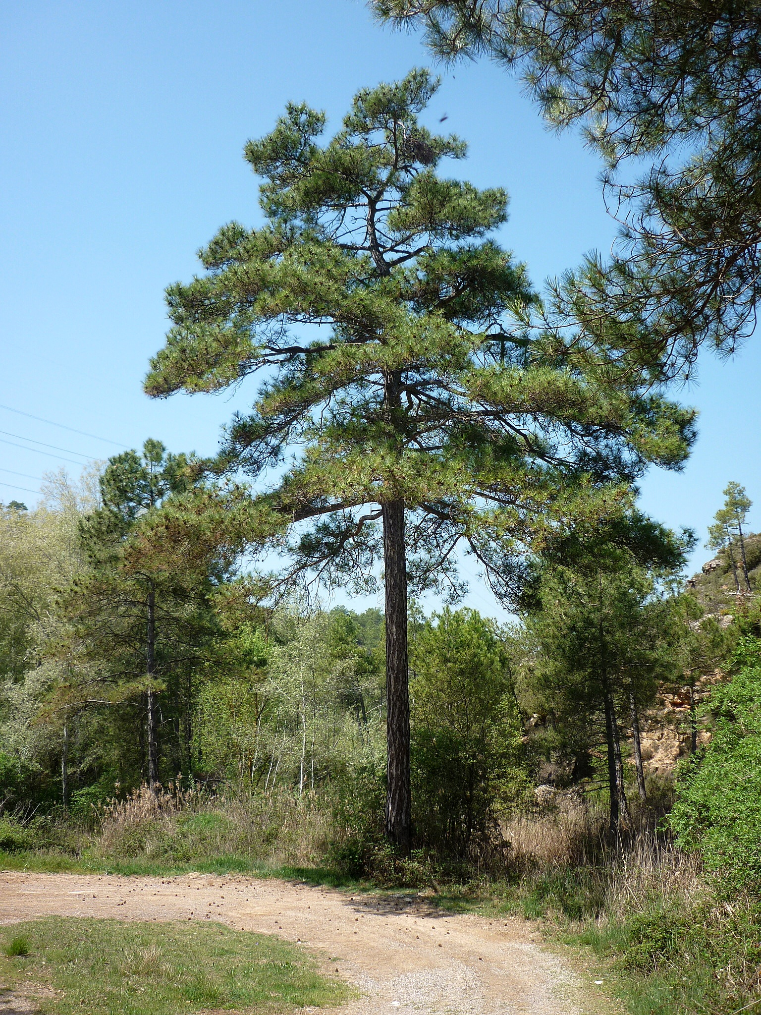 Pinus halepensis. In Torà (Segarra - Catalunya). To 460 m. altitude